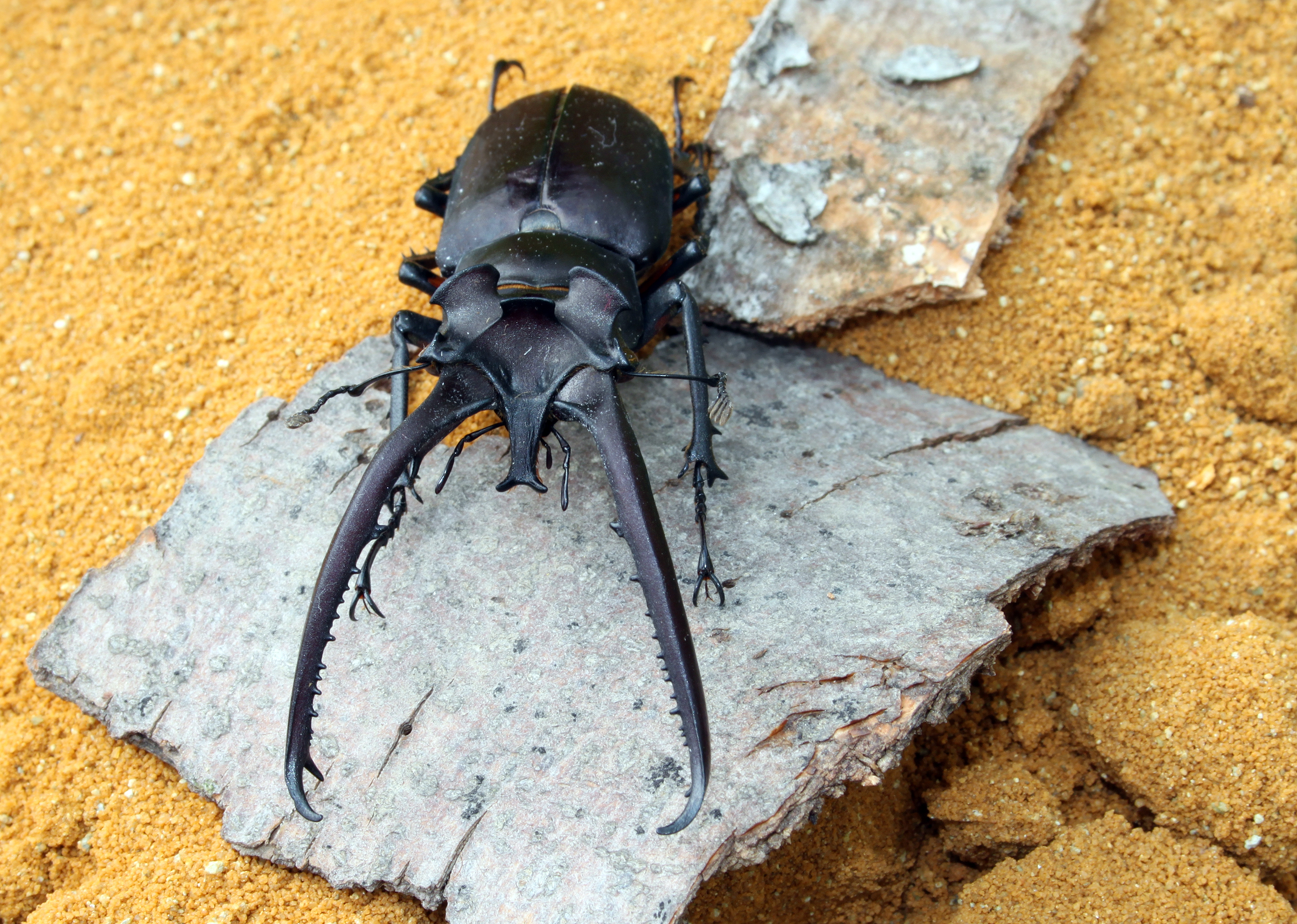 Stag beetle (male), Lucanus hermani, Family: Lucanidae, Appearance: China, Province Hunei (Studio shot, therefore not geocoded).